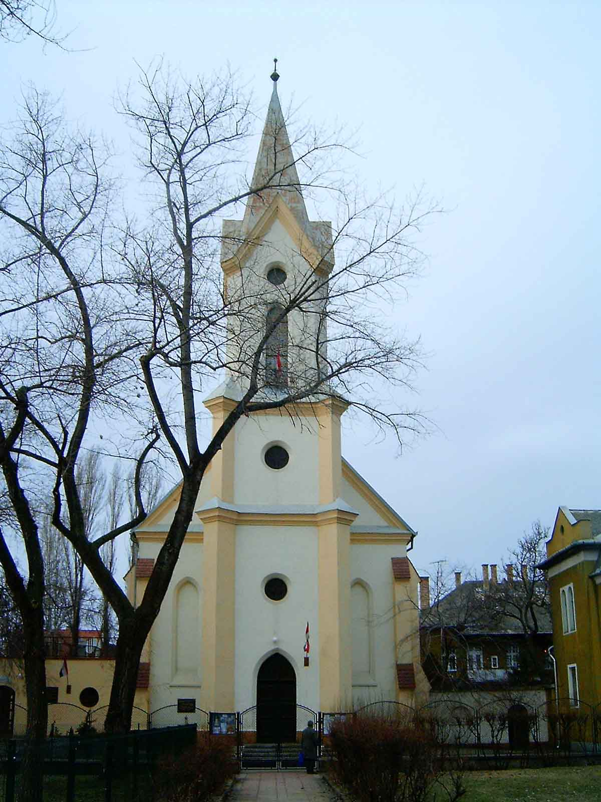 Reformed church in Kispest (19th district in Budapest)